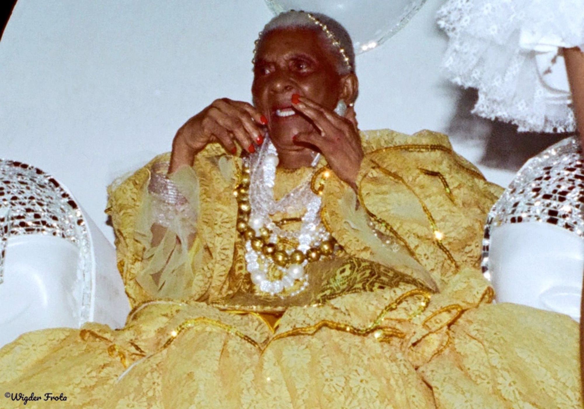 From the Series "Samba Schools, Rio de Janeiro" Carnival 1993 Photo: Wigder Frota